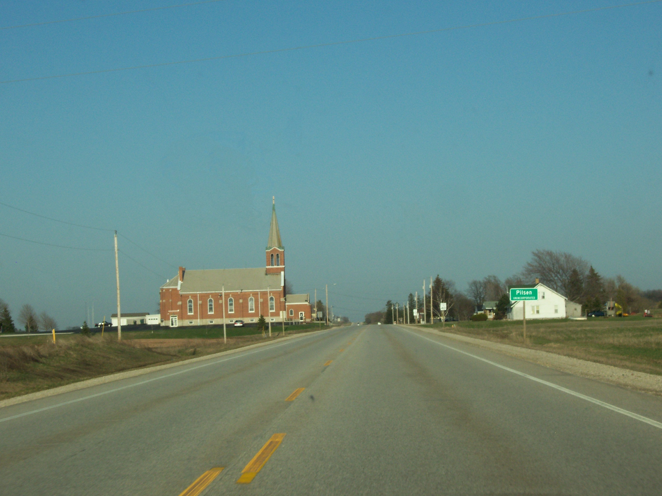 Looking east at Pilsen (community), Wisconsin while traveling on Wisconsin Highway 29.